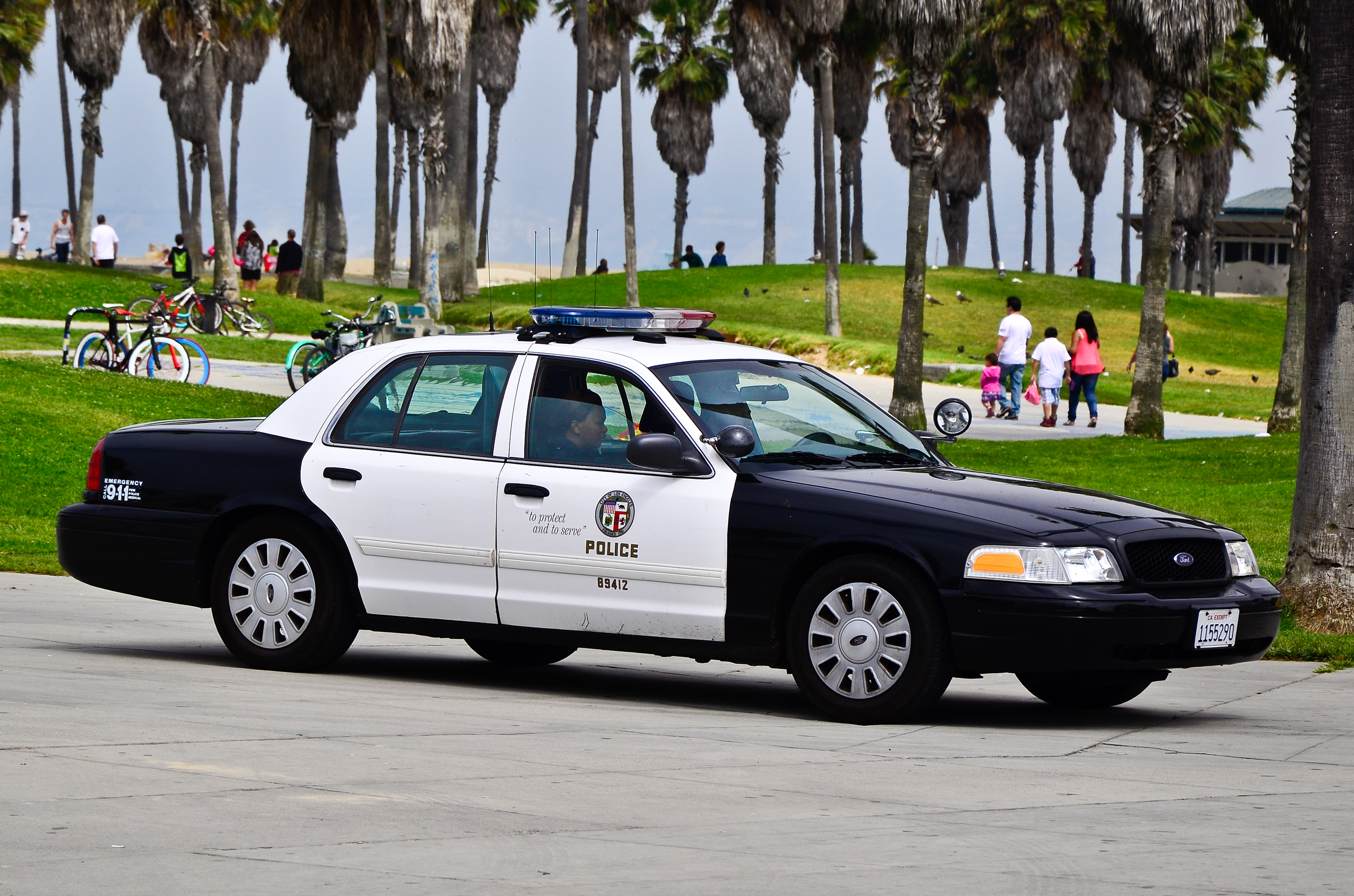 Venice Beach July 8, 2012 TDelCoro